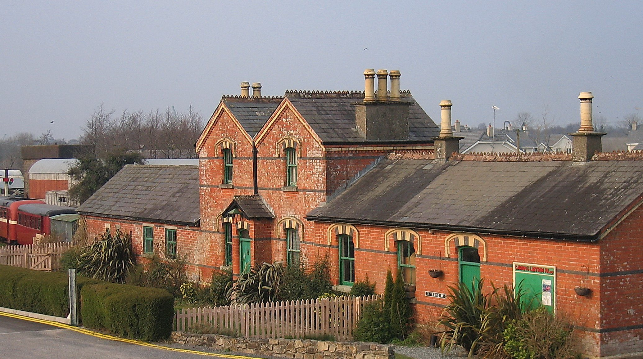 The Cavan & Leitrim railway depot in County Leitrim, Ireland.